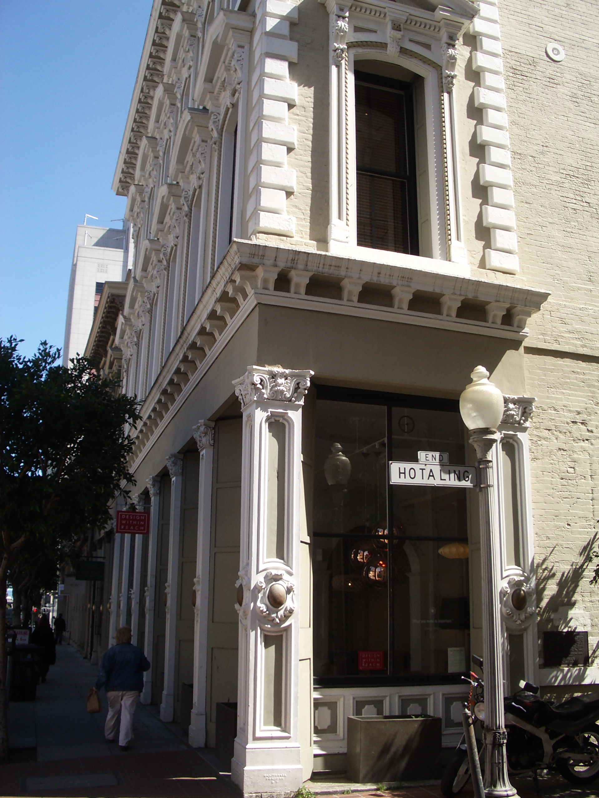 The Hotaling complex.